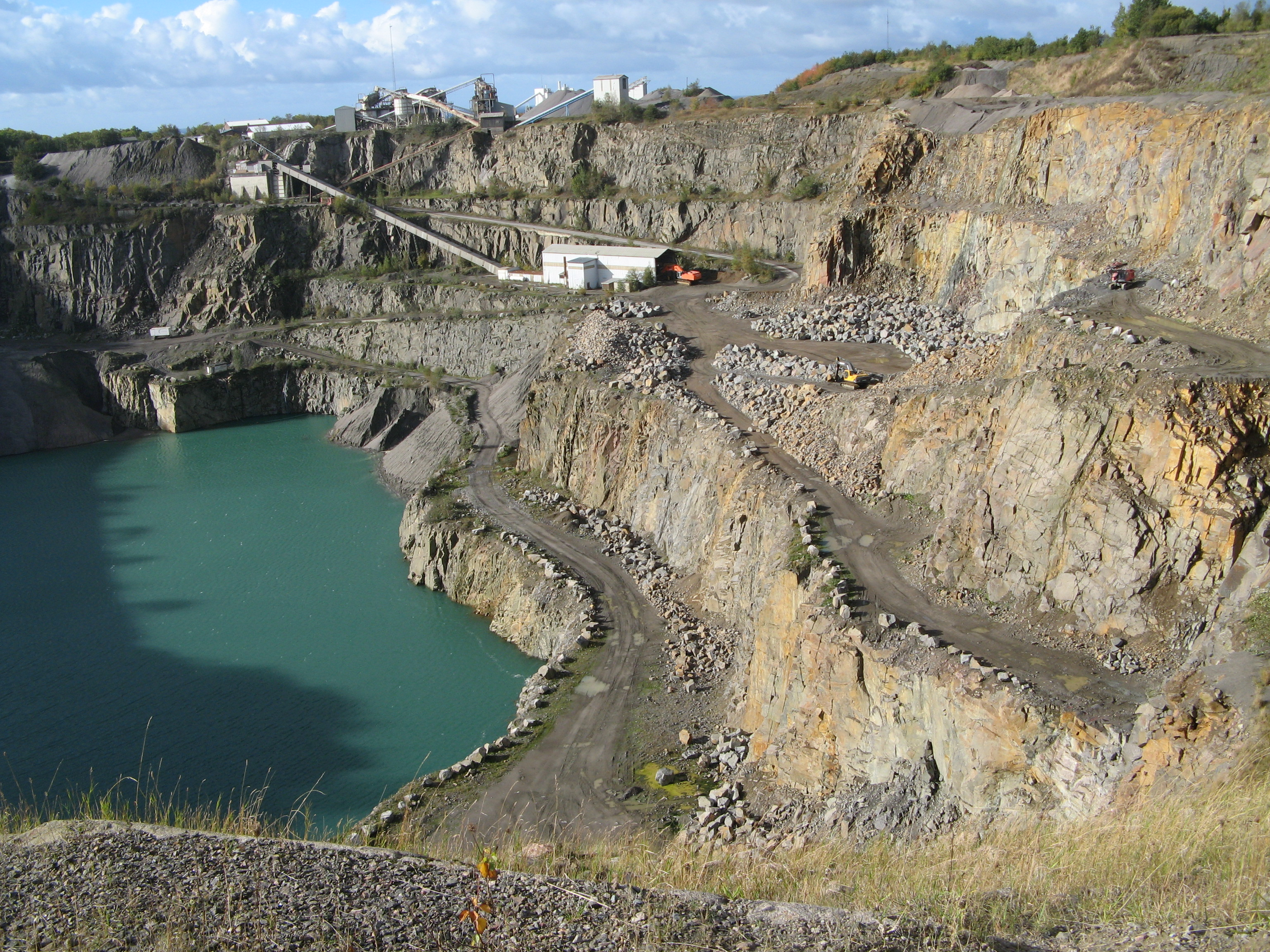 Granite quarry near Knudsker